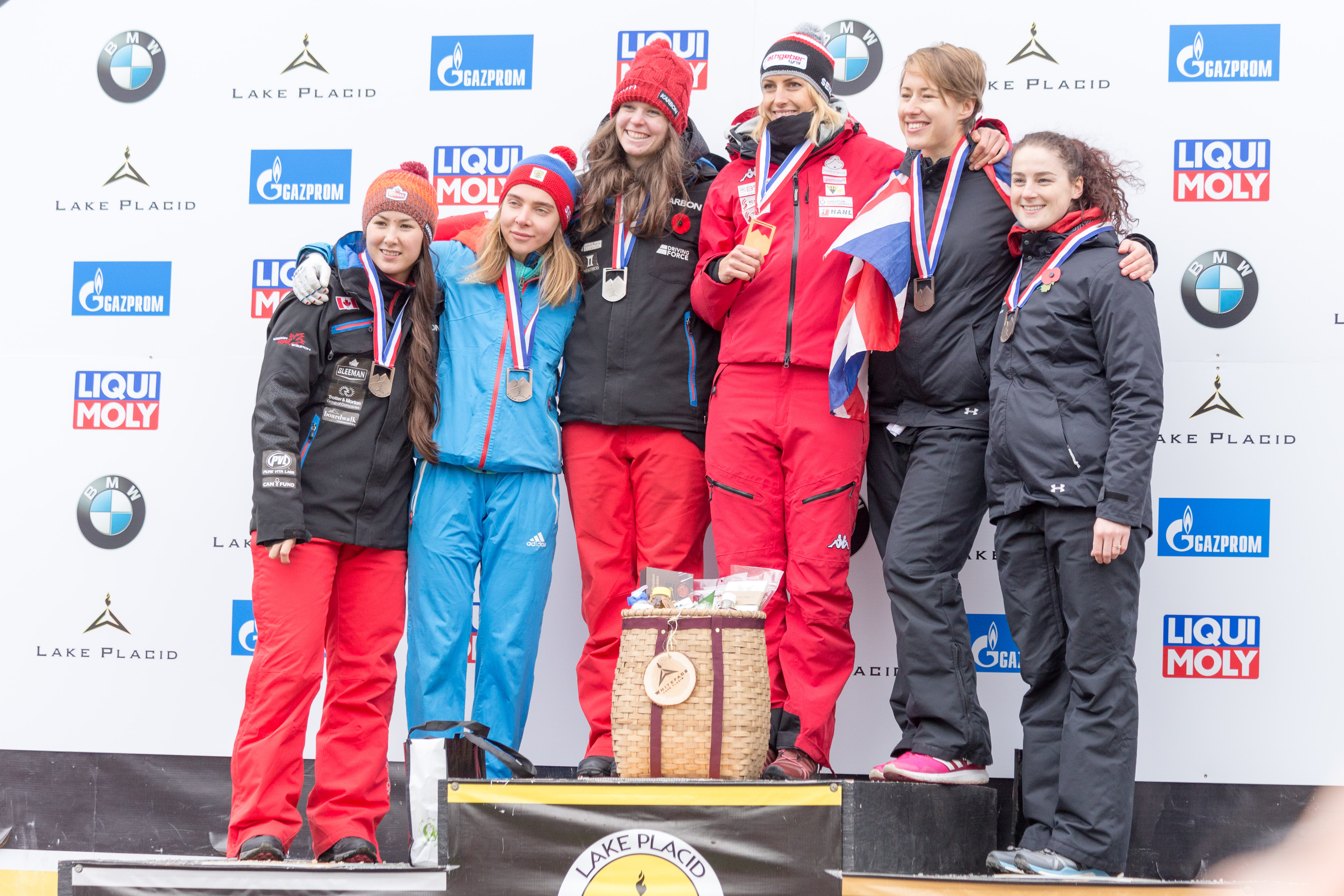 The women's skeleton podium from the 2017/2018 BMW IBSF World Cup tour stop in Lake Placid, after the medals ceremony. From left to right, the six women are: [6th] Jane Channell (CAN), [4th] Elena Nikitina, [silver] Elisabeth Vathje (CAN), [gold] Janine Flock (AUT), [bronze] Lizzy Yarnold (GBR), [5th] Laura Deas (GBR).